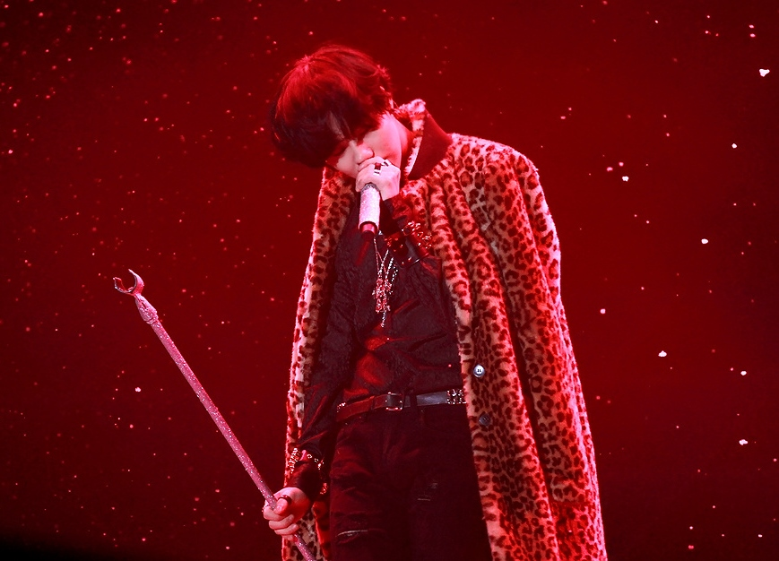 Taemin at the SMTown Week on December 21, 2013.